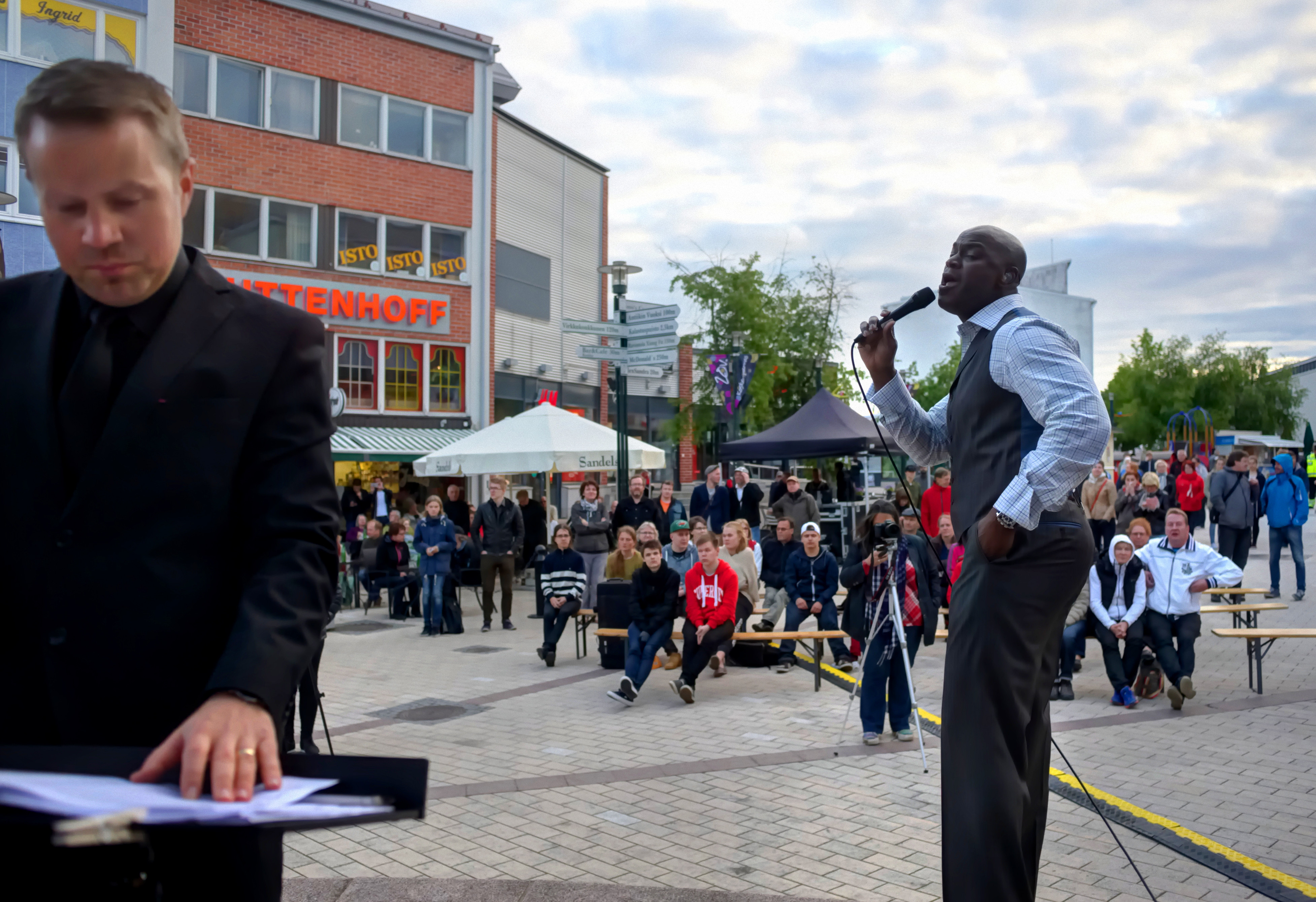 Ola Onabule in Imatra 2015